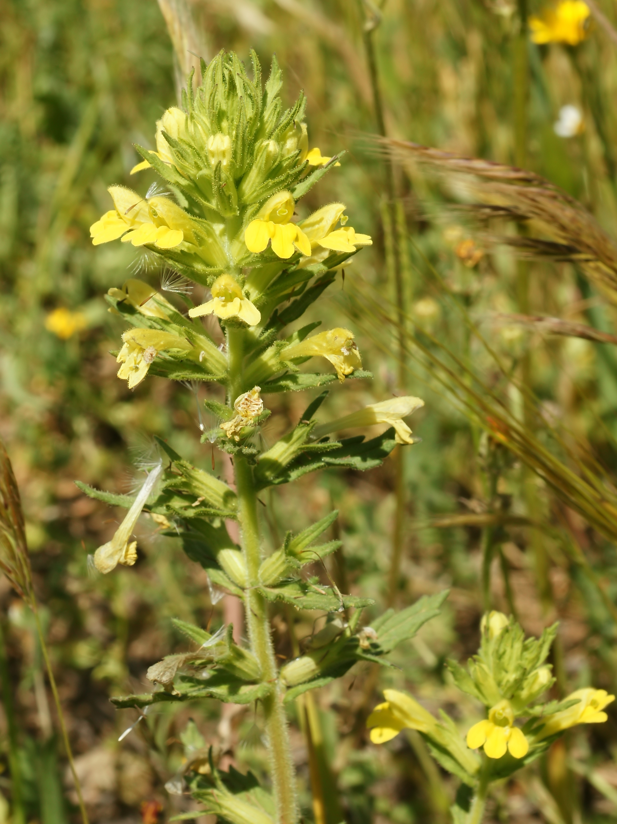 Yellow Glandweed close to Acquadda, Sardinia, Italy.